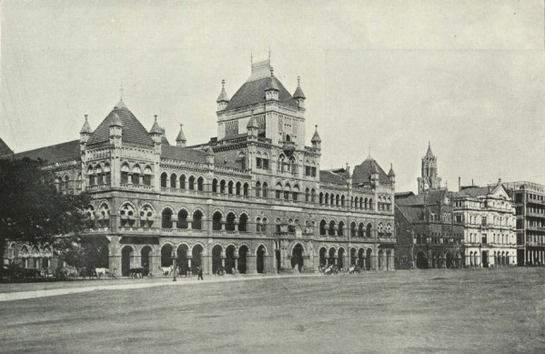 The late Sire Cowasjee Jehangir Readymoney Contributed two lakhs of rupes towards this building.